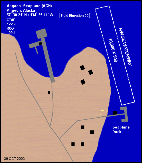 Diagram of Angoon Seaplane Base (FAA: AGN) in Angoon, Alaska, United States.